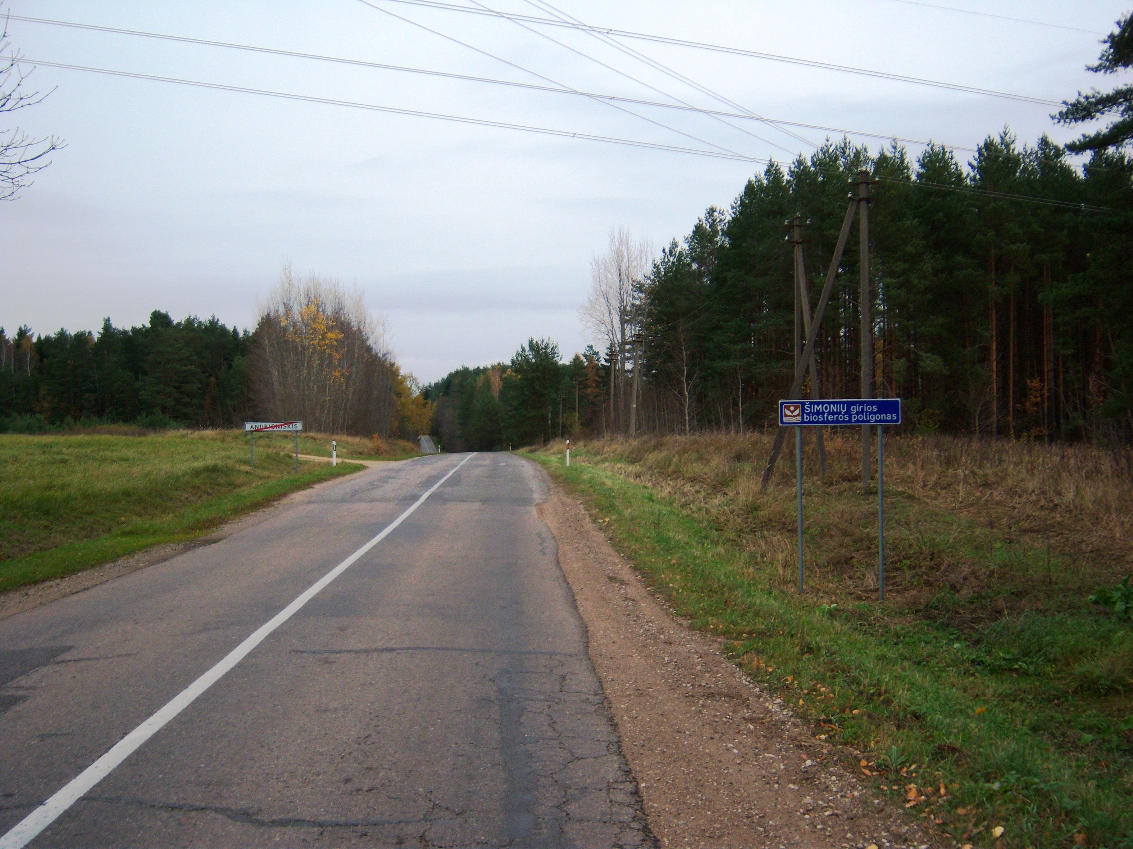 Road KK175 by Andrioniškis, Anykščiai District, Lithuania